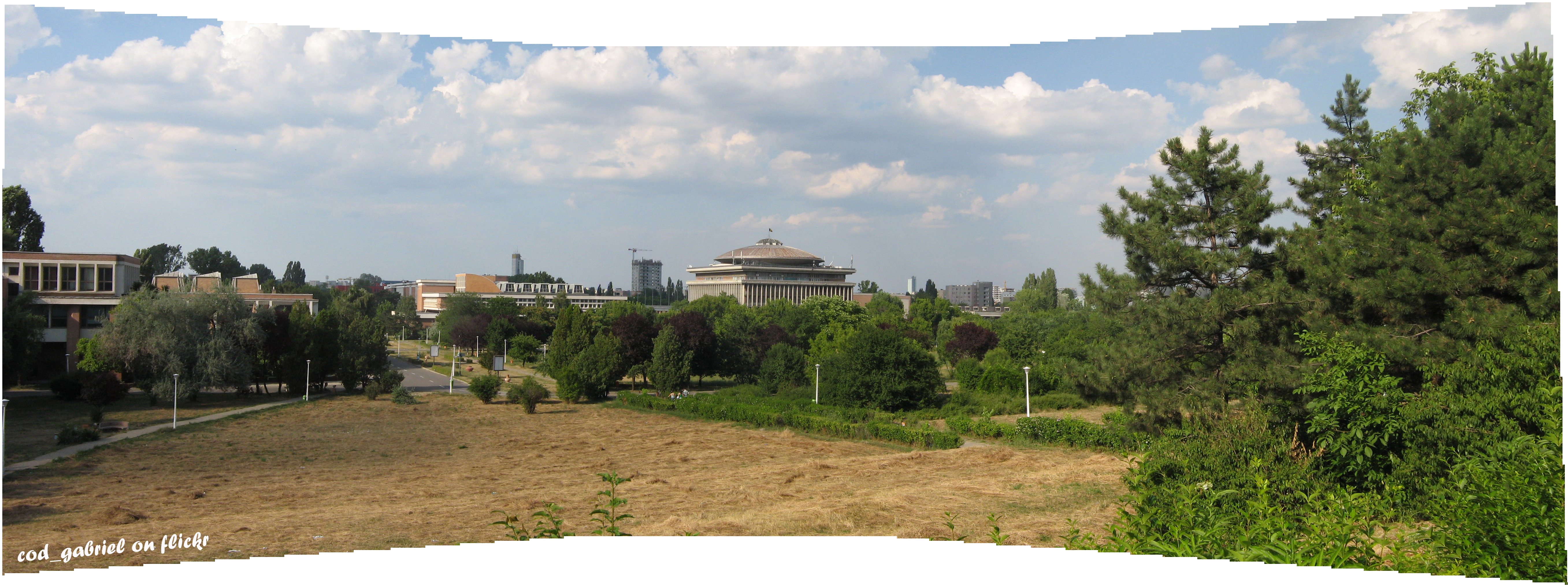 The following is the author's description of the photograph quoted directly from the photograph's Flickr page. "Parcul Politehnicii. "